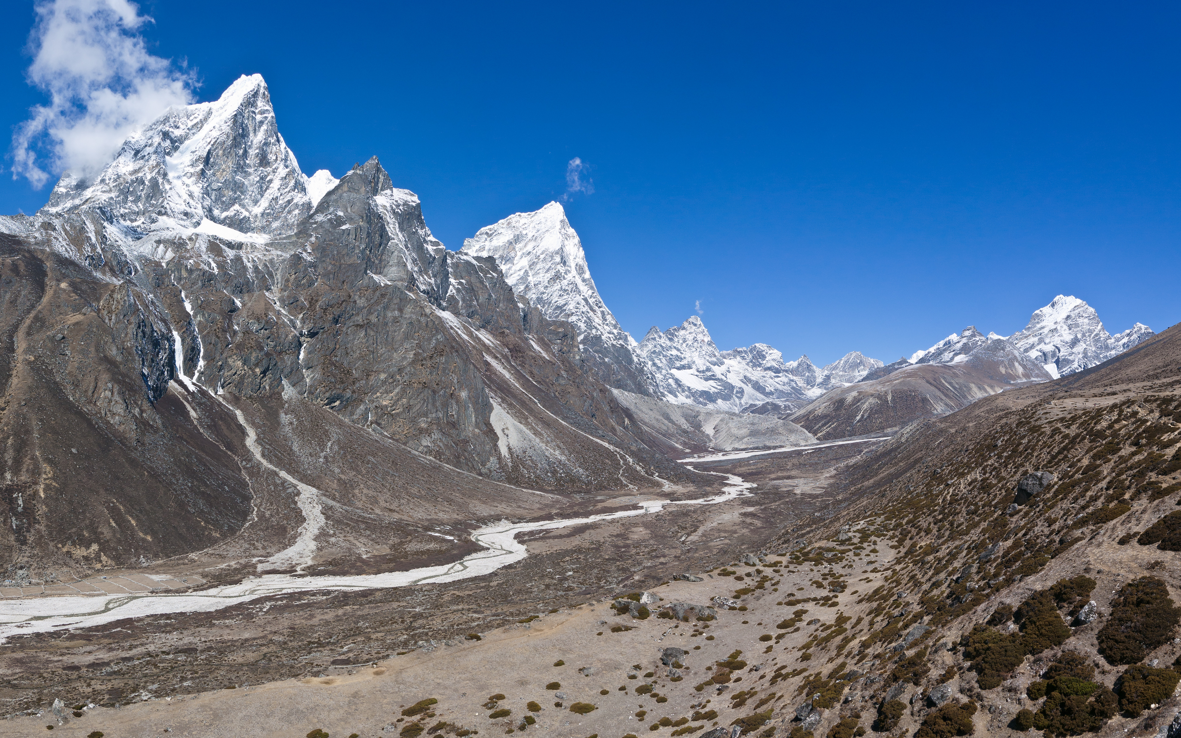 Panorama view of the Khumbu Khola valley above Pheriche. To the left are the peaks of Tawoche (6542m) and Cholatse (6440m).